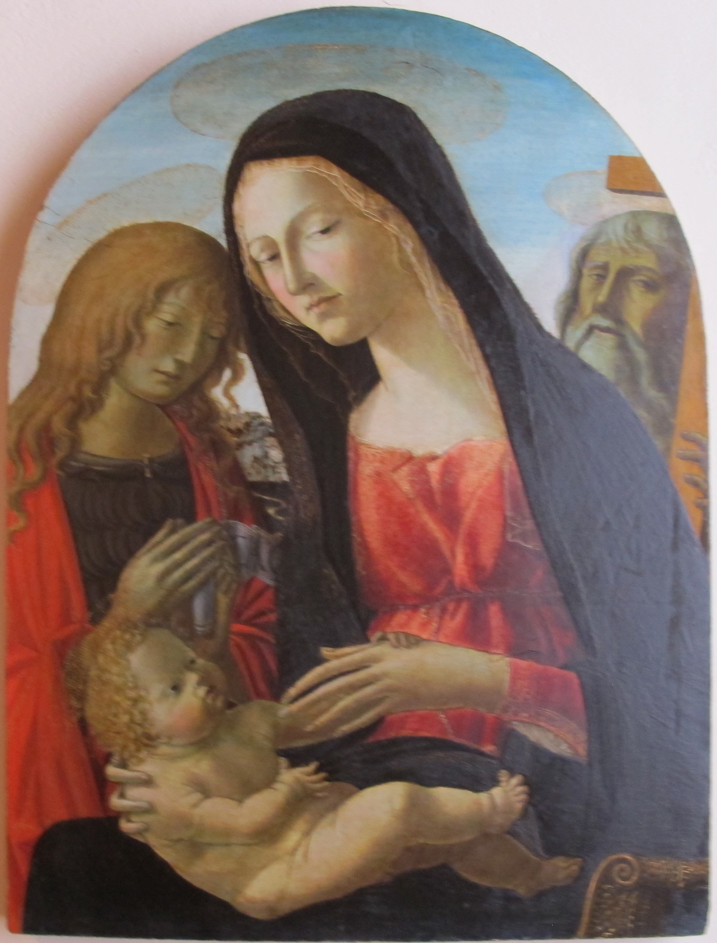 Painting in the National Pinacotheque, Siena